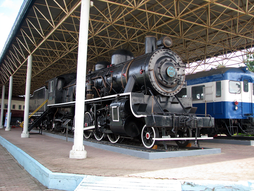 Korea Railroad Stream Locomotive type Mika 3 161